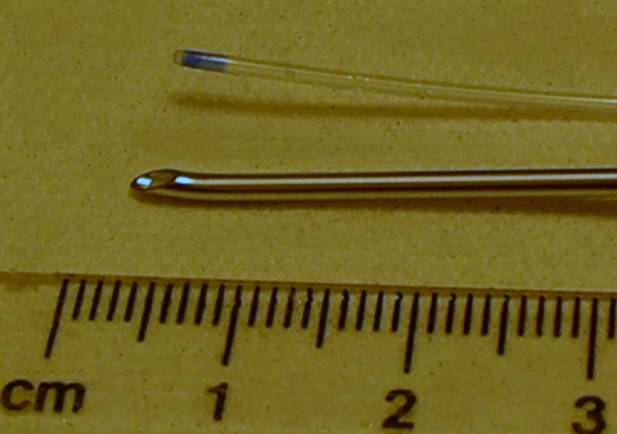 Tip of 16G Portex Tuohy needle and epidural catheter tip